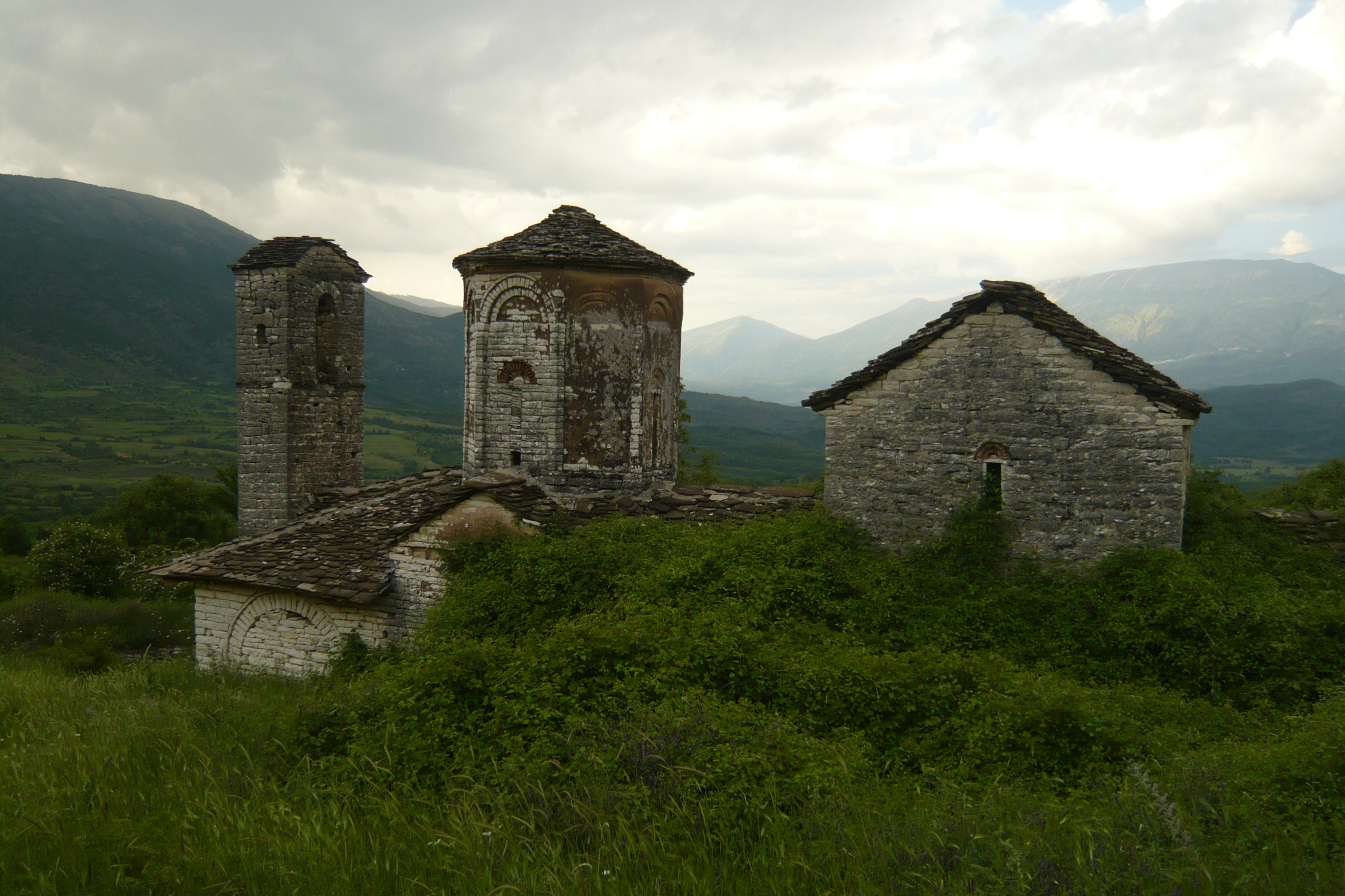 External view of the Çatistë monastery church